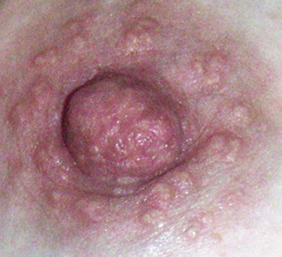 Areola with Montgomery glands Author: Robodoc.at Licence: free license